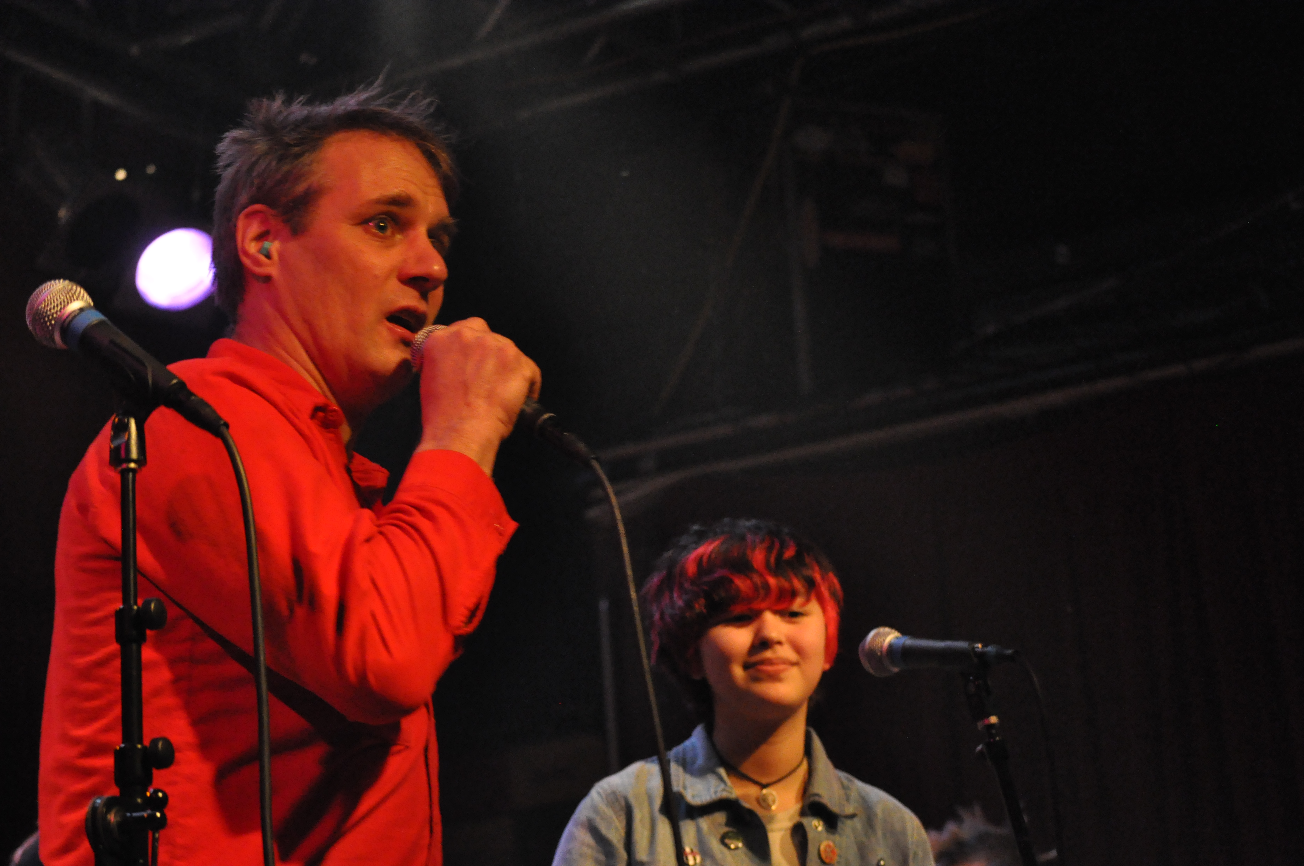 Young musicians from Seattle's School of Rock perform at Neumo's, Seattle, Washington, January 6, 2011. Calvin Johnson of Beat Happening, Halo Benders, K Records, etc. at right, sitting in.